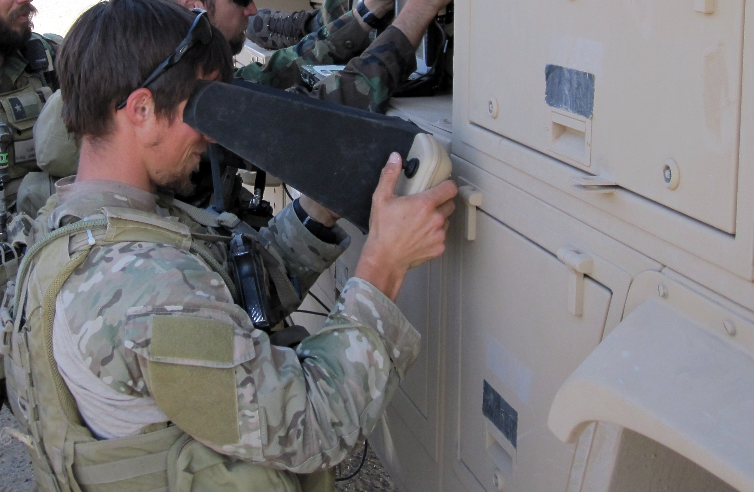 A US Air Force Special Operations Weather Technician pilots a RQ-11B Raven, an unmanned aircraft system, that provides real-time reconnaissance of the local environment, such as rivers, at a forward operating base in Afghanistan.